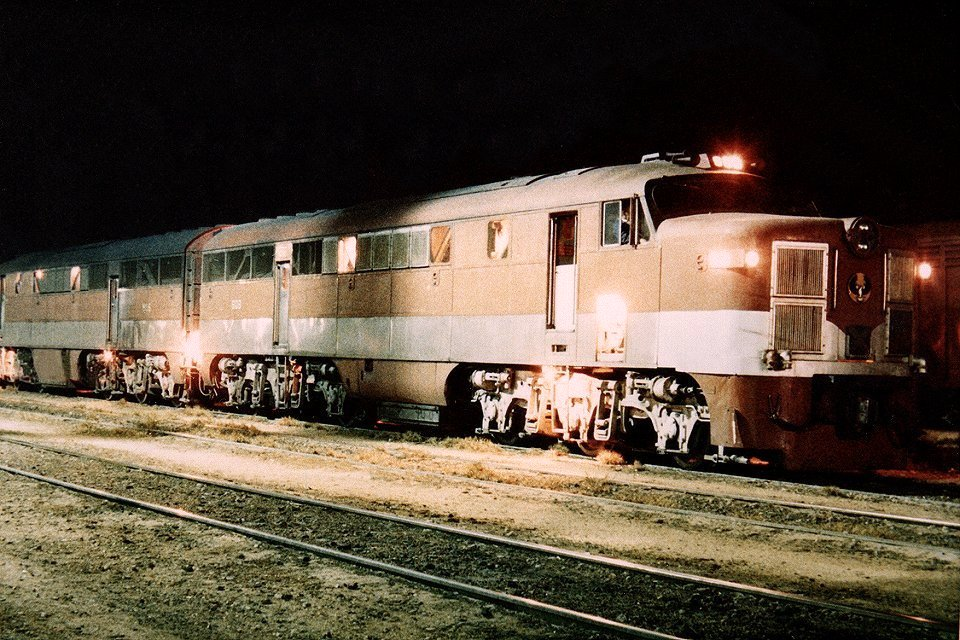 900 Class of the South Australian Railways.